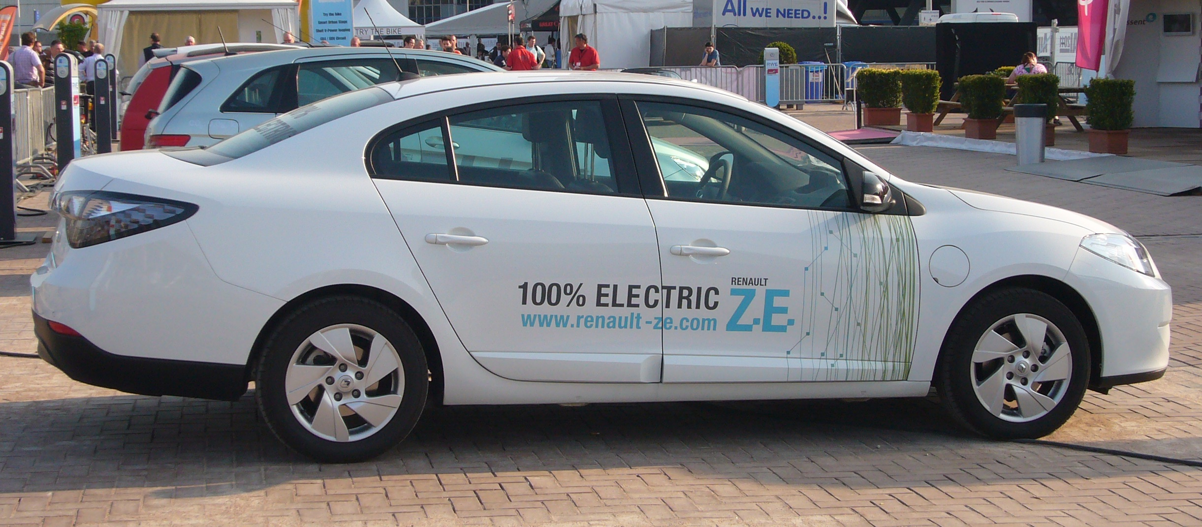 Renault Fluence Z.E. at AutoRAI Amsterdam 2011